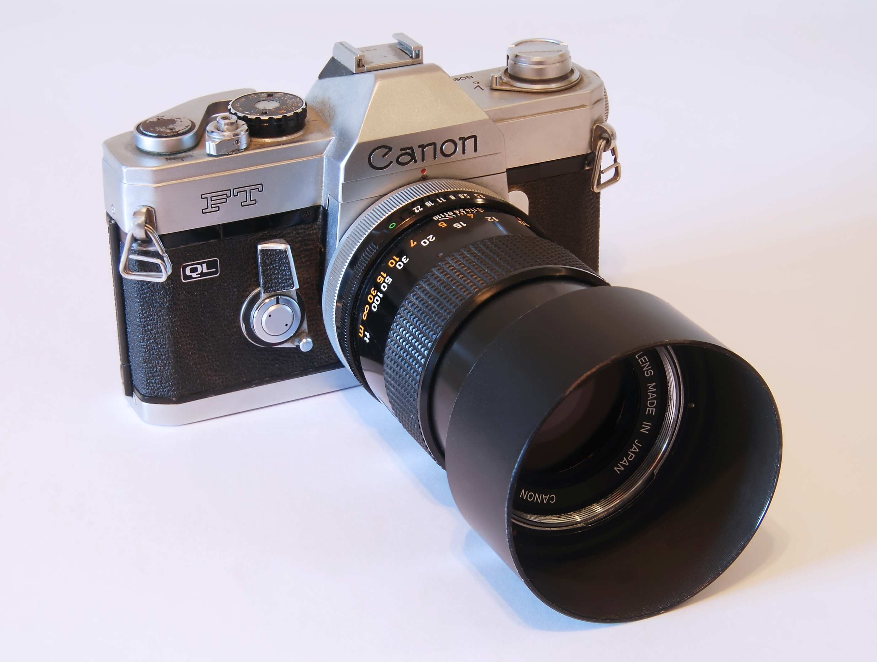 A Canon FT camera (1966) with a 135mm 1:3.5 lens. Composite image of eight photos using focus bracketing Camera: Nikon D80 with Nikkor 35-50mm Exposure: manual, 1/5 s, F/3.8